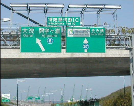 Sign of Hitachinaka Port Interchange on the Hitachinaka Toll Road